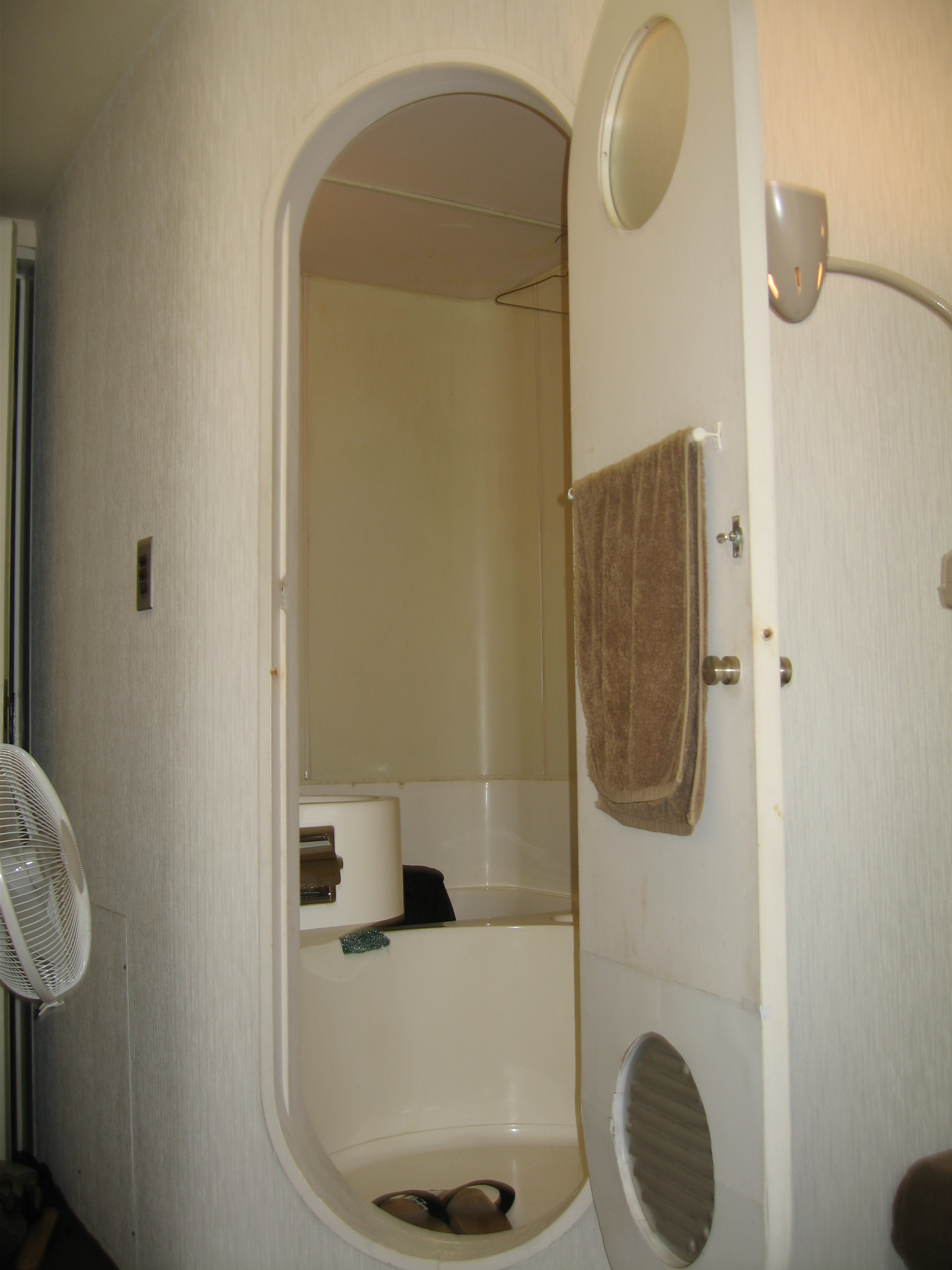 nakagin-capsule-tower